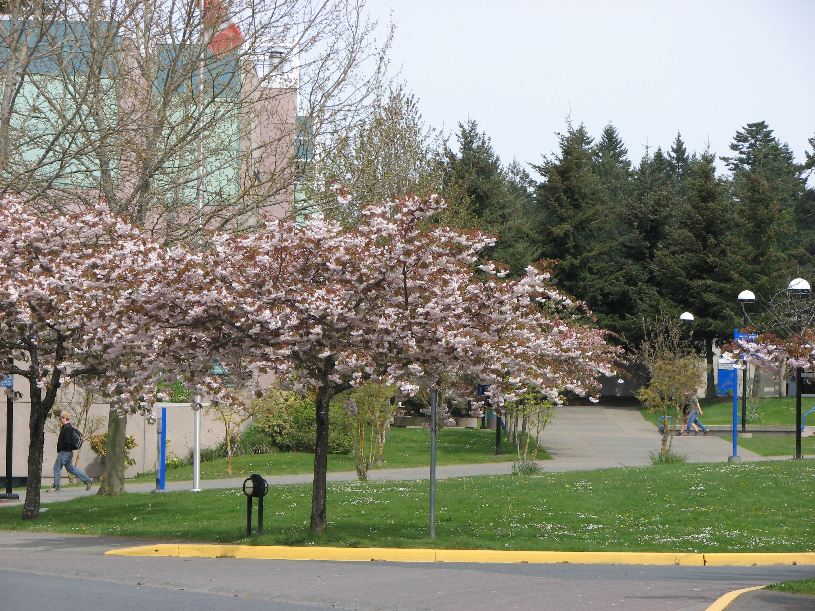 Cherry Tree Blossoms at Camosun College - Interurban Campus, Greater Victoria, BC, Canada.